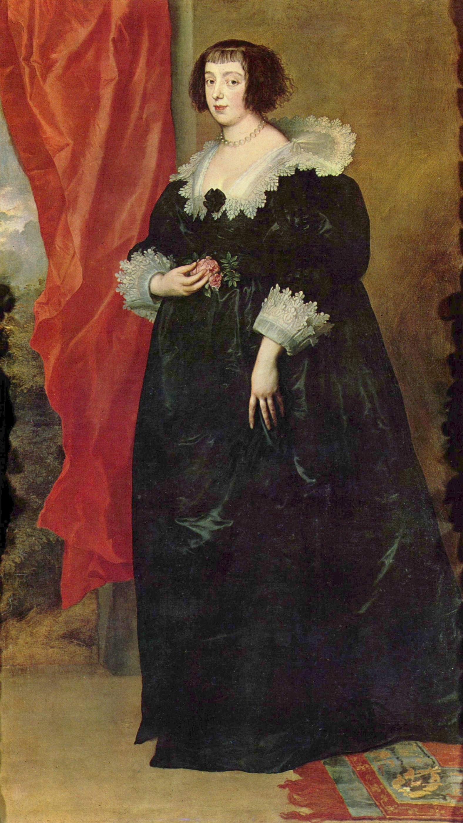 There is not any doubt about this identification. The portrait is identified as Margaret of Lorraine by at least three contemporary engravers : Moncornet, Van Sompel, and Bolswert.